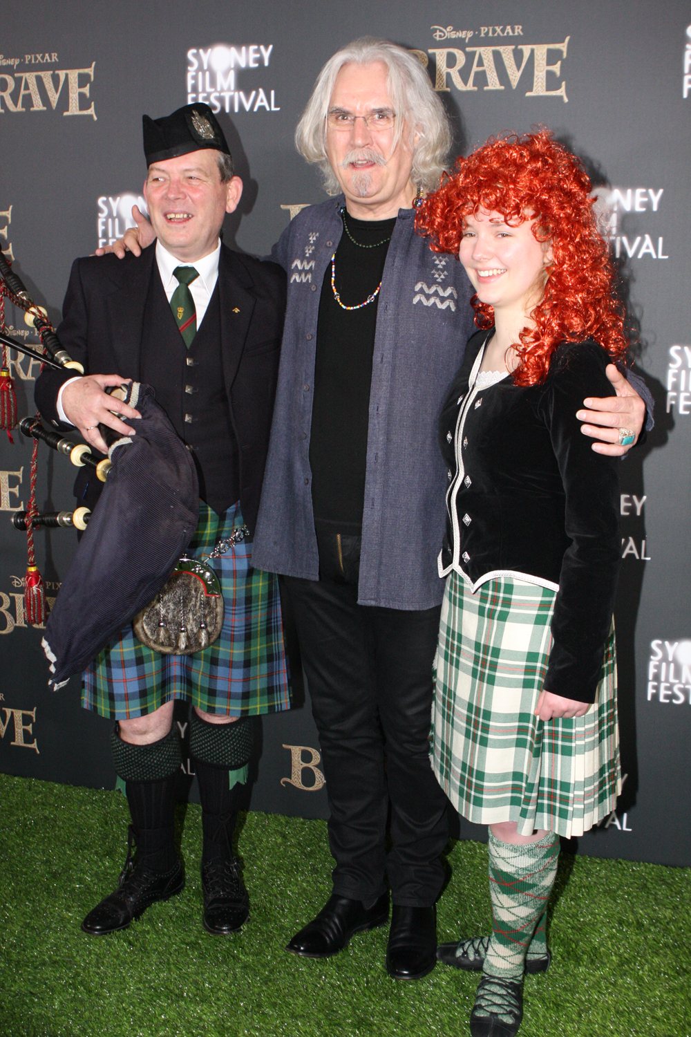 Billy Connolly in Sydney, Australia for Brave Red Carpet Event